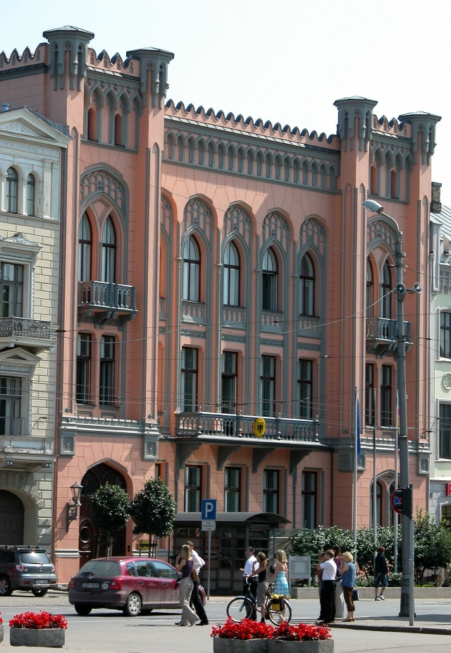 Riga: Embassy of the Federal Republic of Germany.